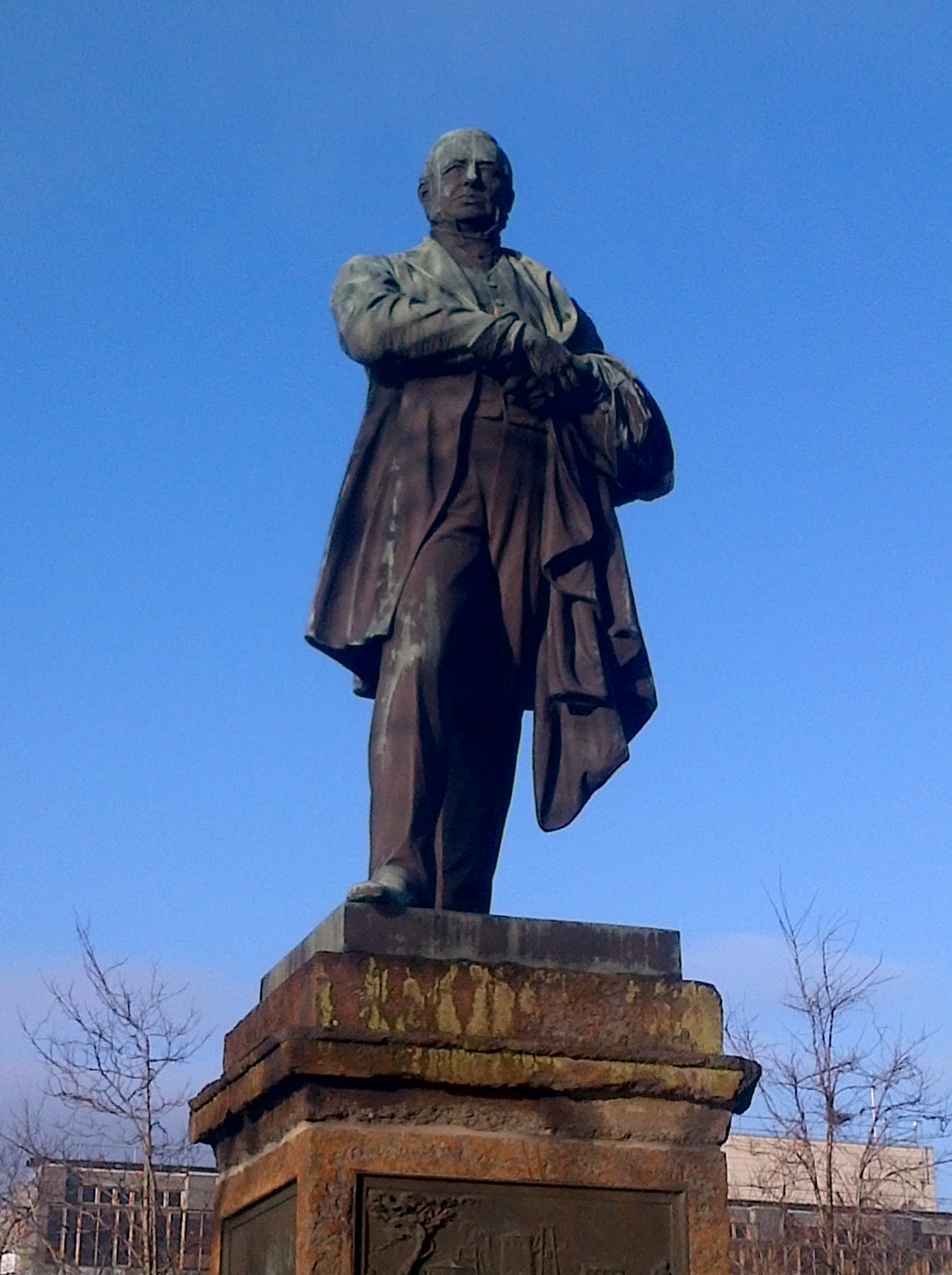 The John Vaughan statue which stands in Centre Square, Middlesbrough.